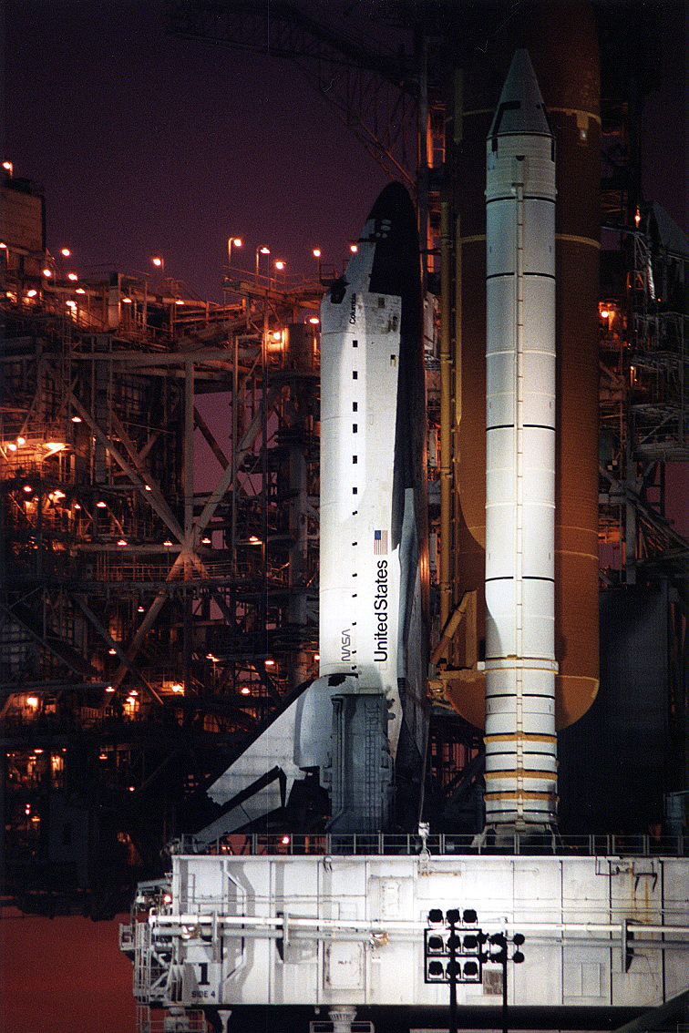 Columbia on Pad 39-B in October 1993.